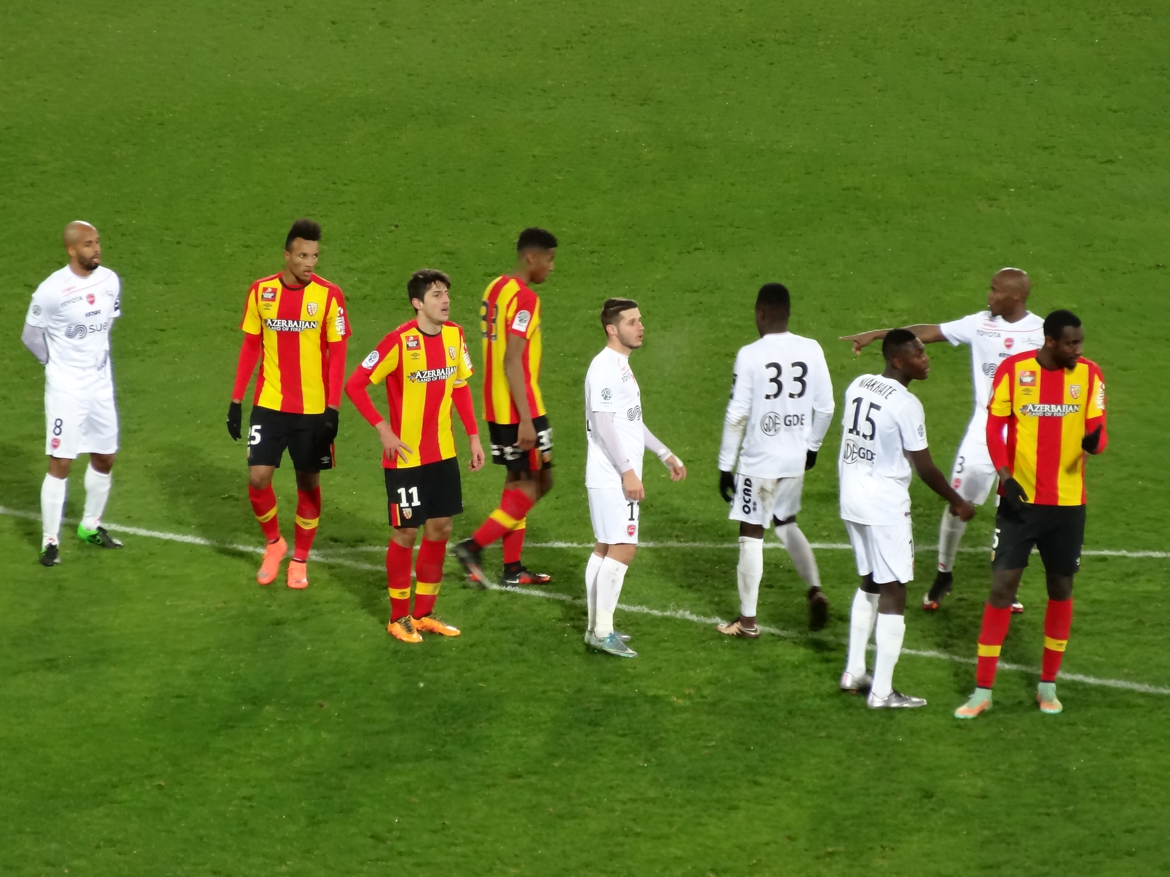 RC Lens - VAFC 2015-2016